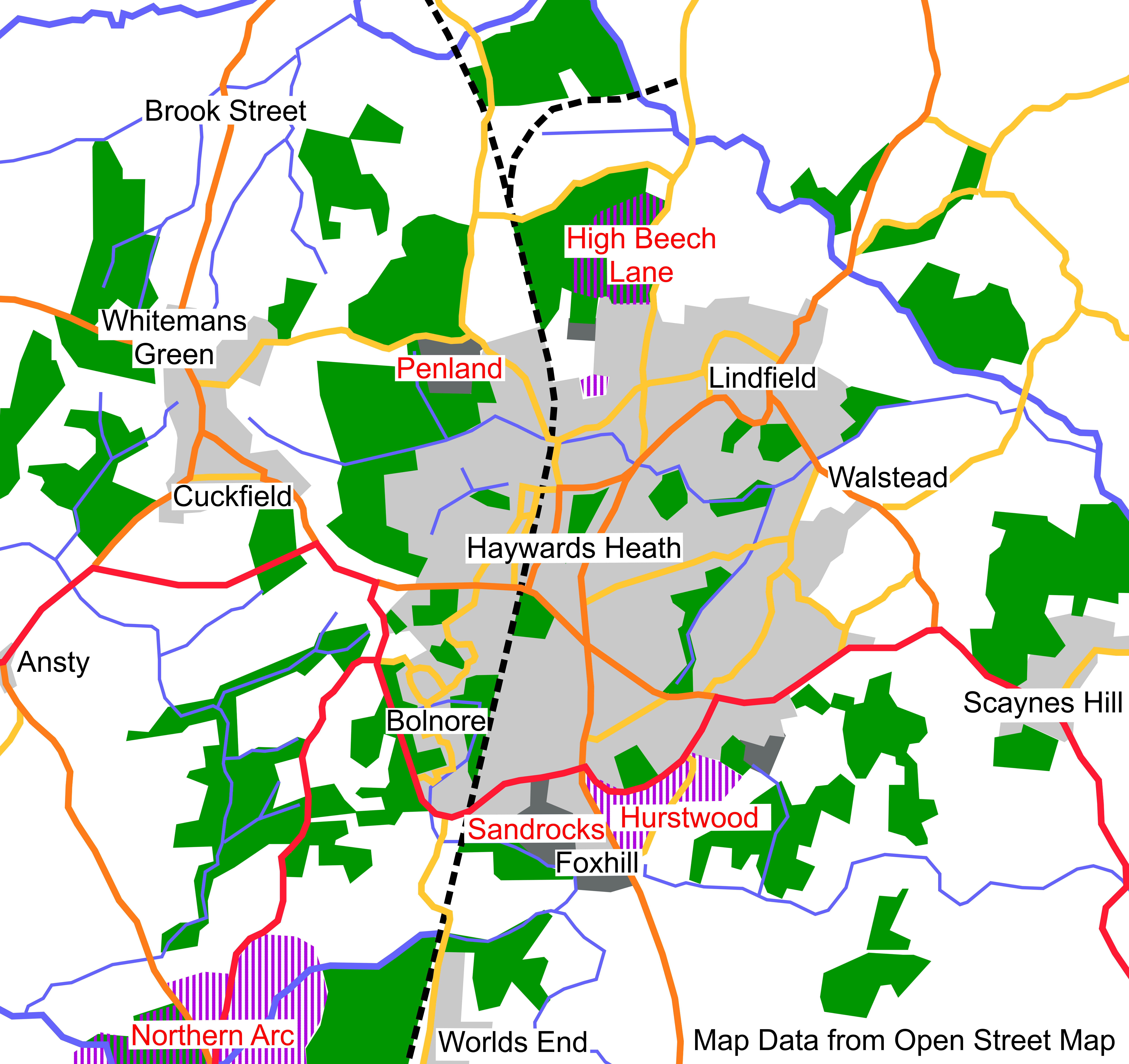 A Map of Haywards Heath showing surrounding villages and large housing developments. Raw map data from Openstreetmap.